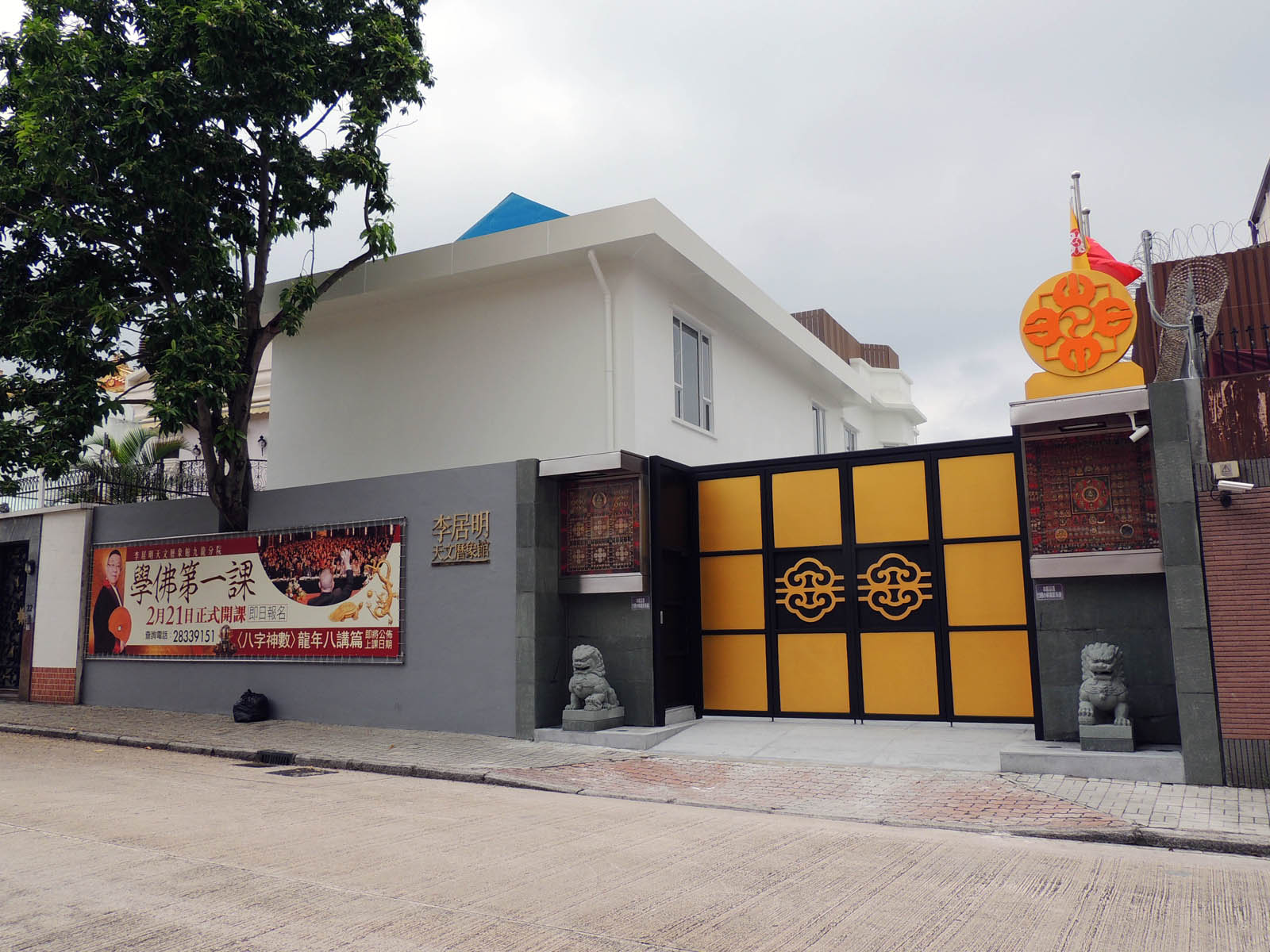 20 Cumberland Road, Kowloon Tong